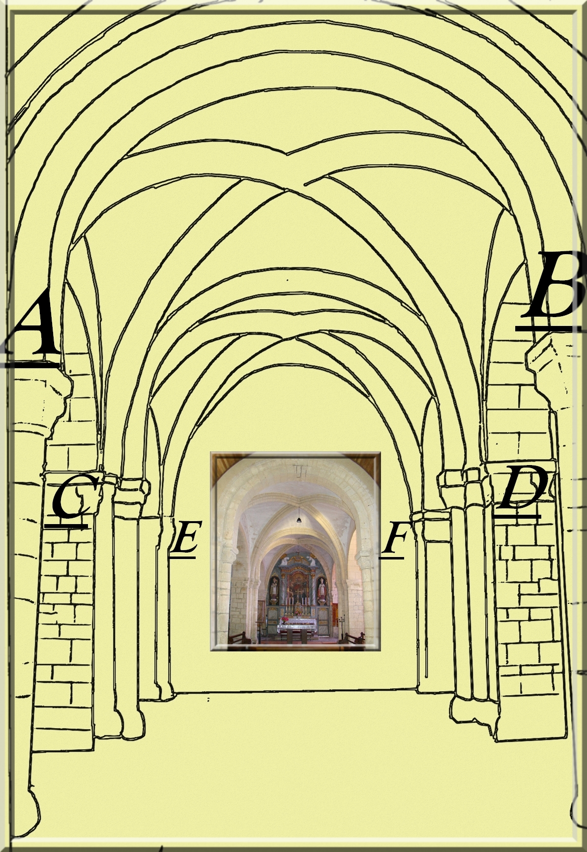 Plan_du_Choeur_Eglise_de_Saint_Germain_sur_Ay